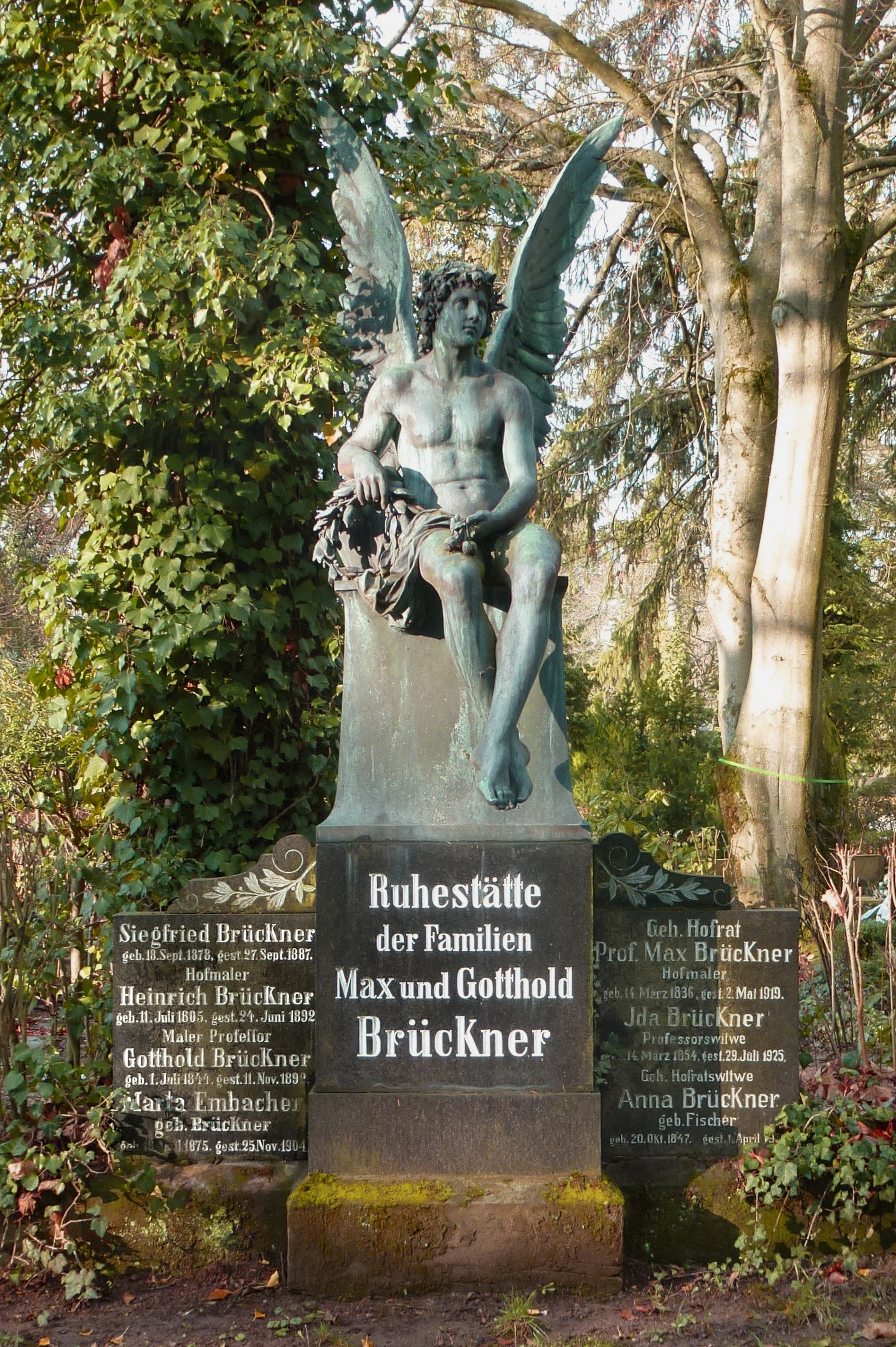 Family grave of Max and Gotthold Brückner at the cemetery in Coburg